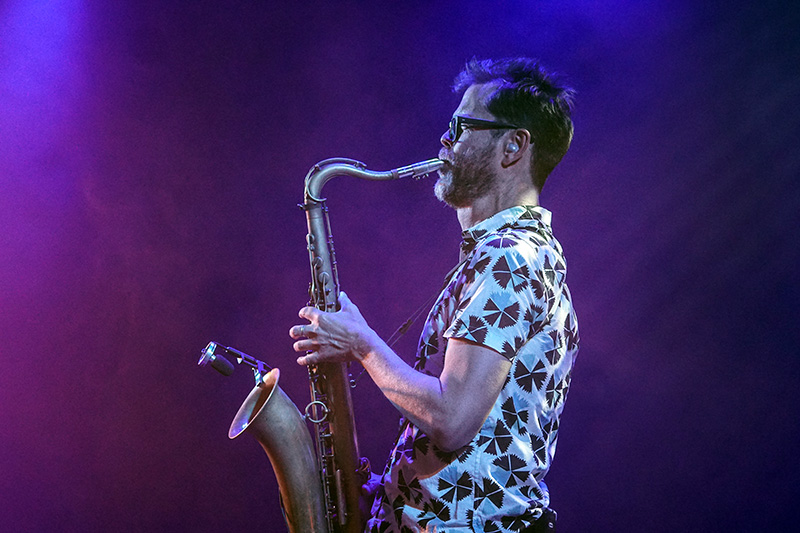 Donny McCaslin at Aarhus Festival, Denmark 2018 performing with Jason Lindner (k), Jeff Taylor (voc. g), Jonathan Maron (b) and Zach Danziger (d)